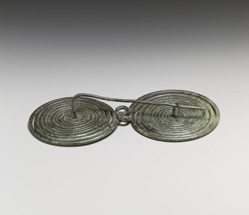 Italic; Fibula, spectacle type; Bronzes